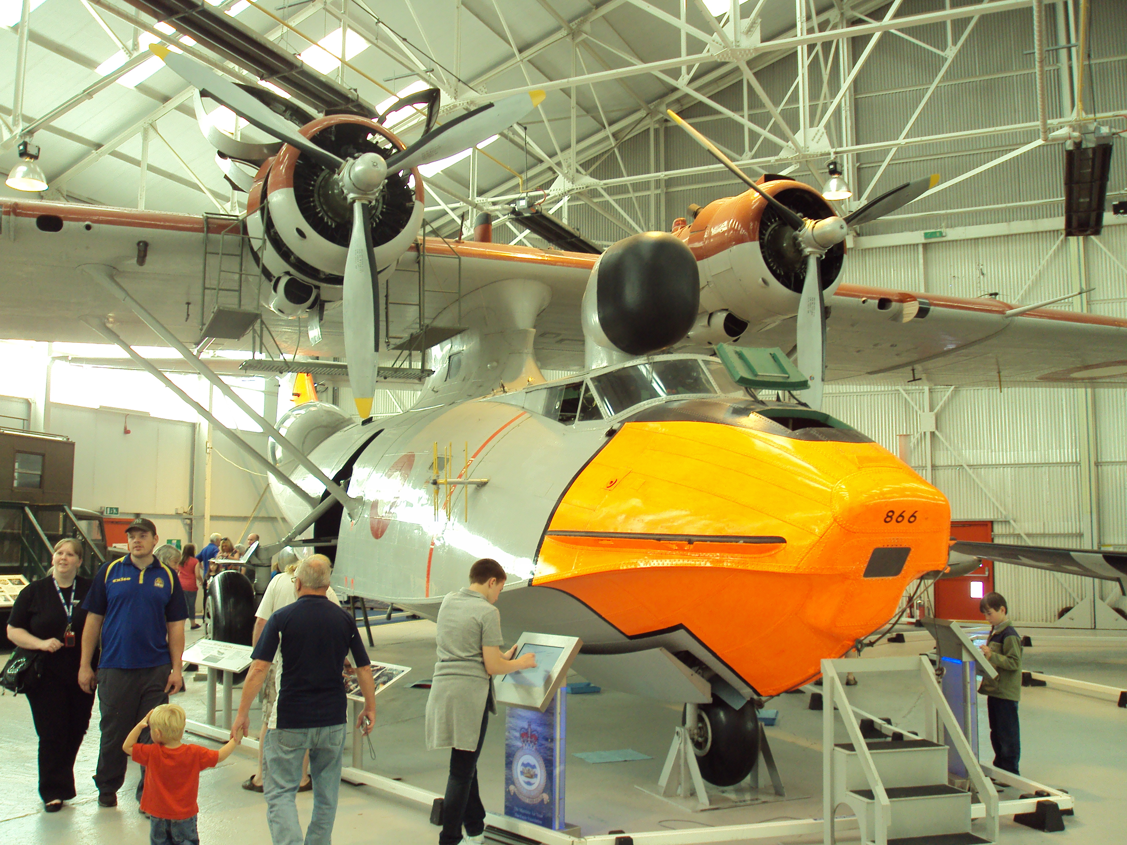 Photo of radar equipped PBY Catalina flying boat taken at the RAF Museum Cosford, Shropshire, England.